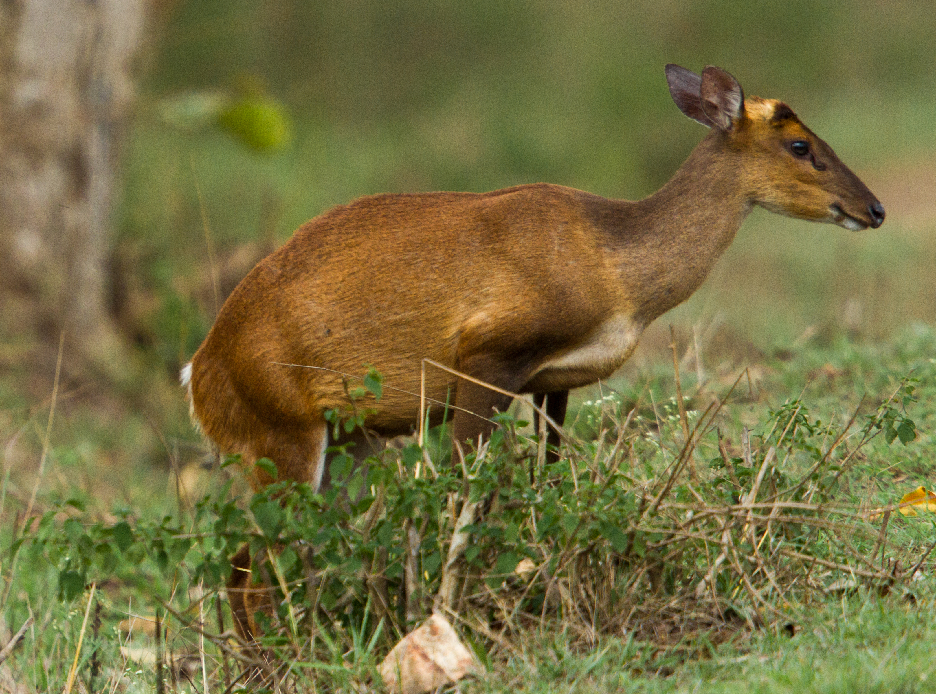 Indian muntjac (Muntiacus muntjak)